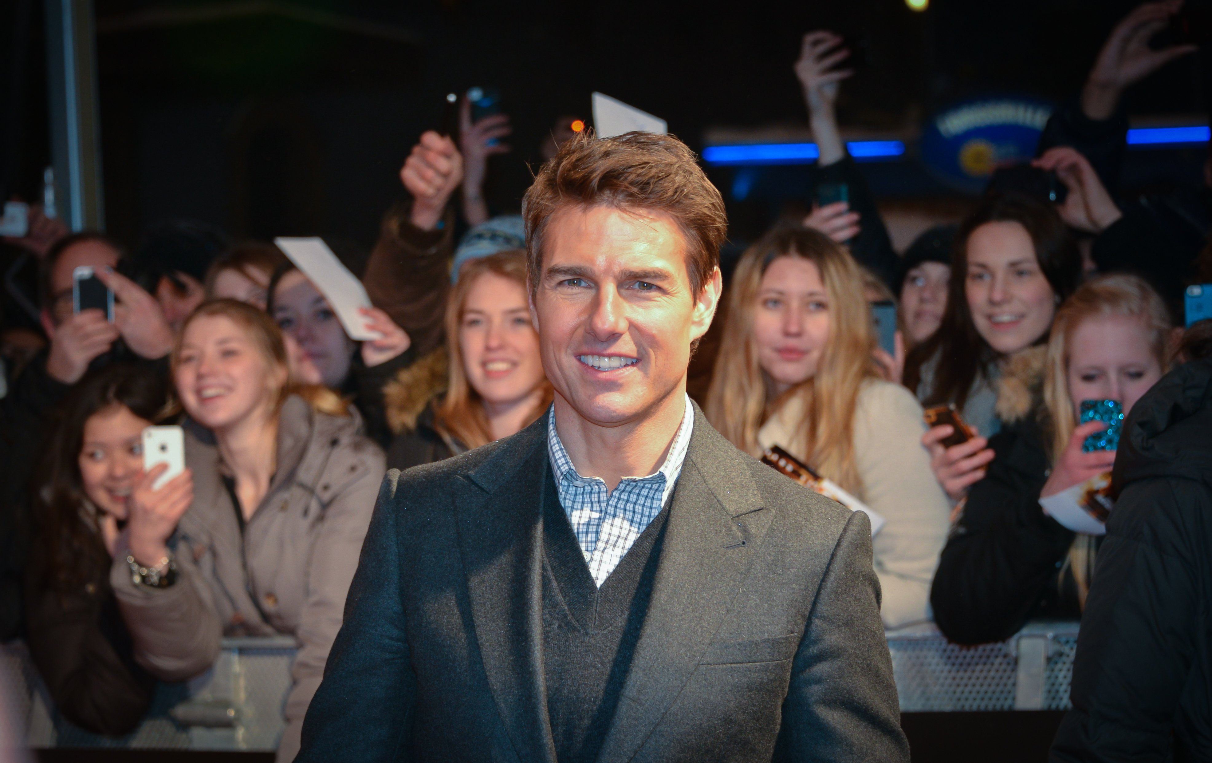 Tom Cruise in Stockholm in December 2012 at the Jack Reacher movie premiere in Stockholm, Sweden.